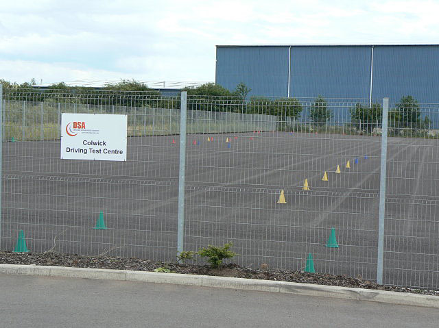 Colwick Driving Test Centre Recently opened facility on the Colwick Industrial Estate.